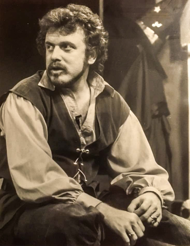 Photo taken in 1980, Brad Williams on the show Hocus Focus